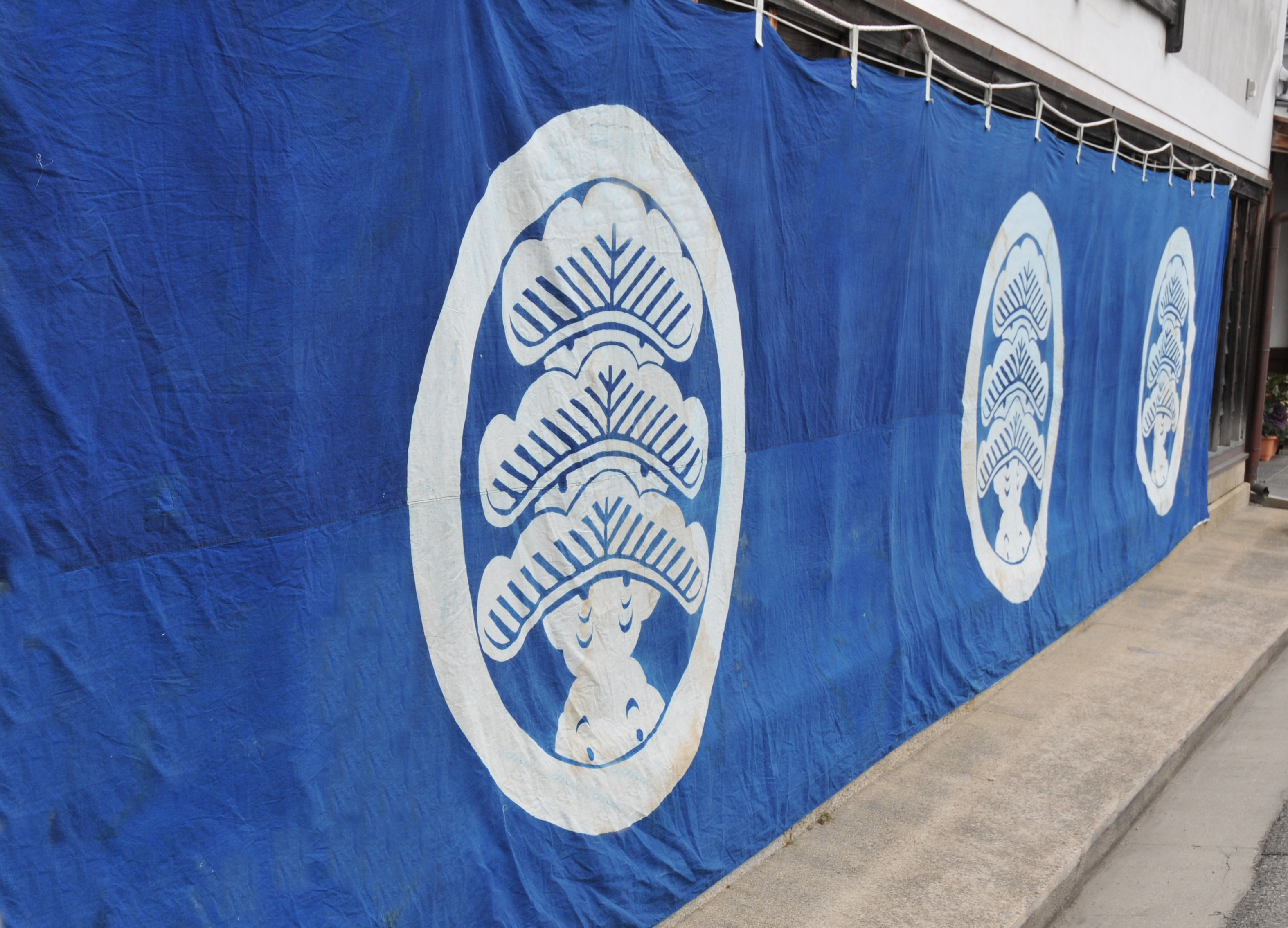 curtain with family crests